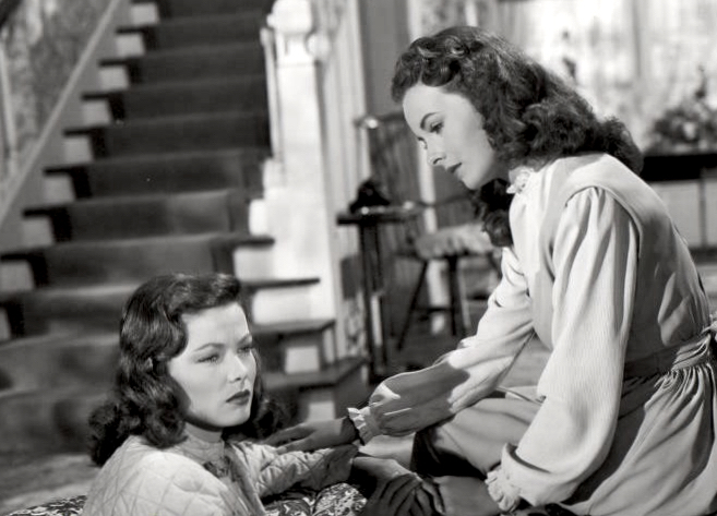 Gene Tierney and Jeanne Crain in Leave Her to Heaven promotional still, dated July 1945